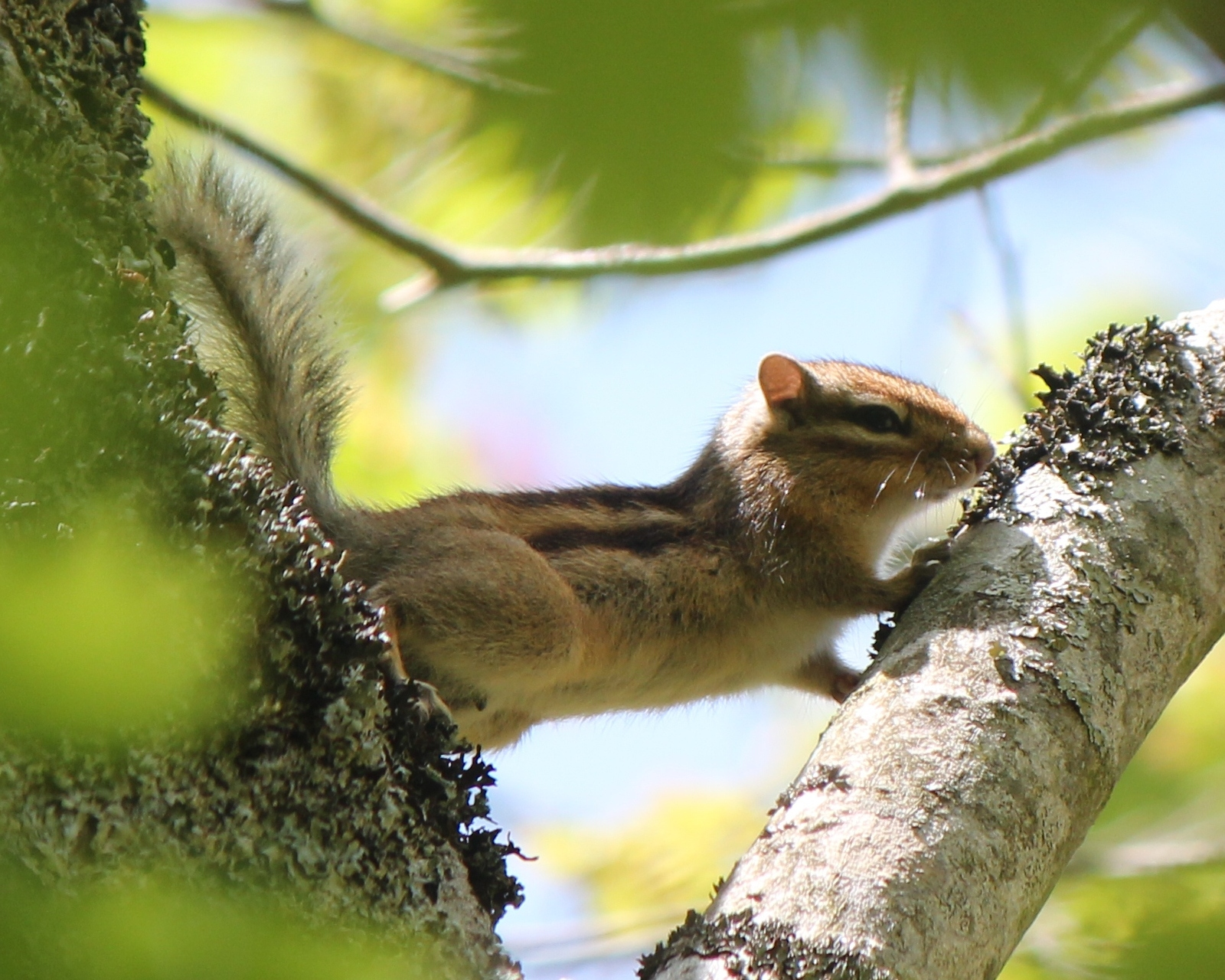 Tamias sibiricus barberi, moving on tree, in Mount Oike, Higashiomi, Shiga prefecture, Japan.